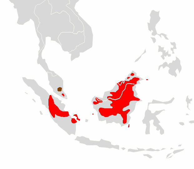 Bearded Pig (Sus barbatus), range map, depending on the range map at IUCN red list red=native, brown=possibly extinct